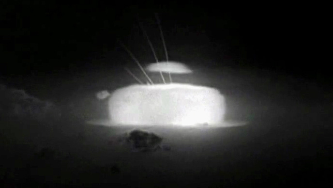 Operation Redwing - Lacrosse shot.